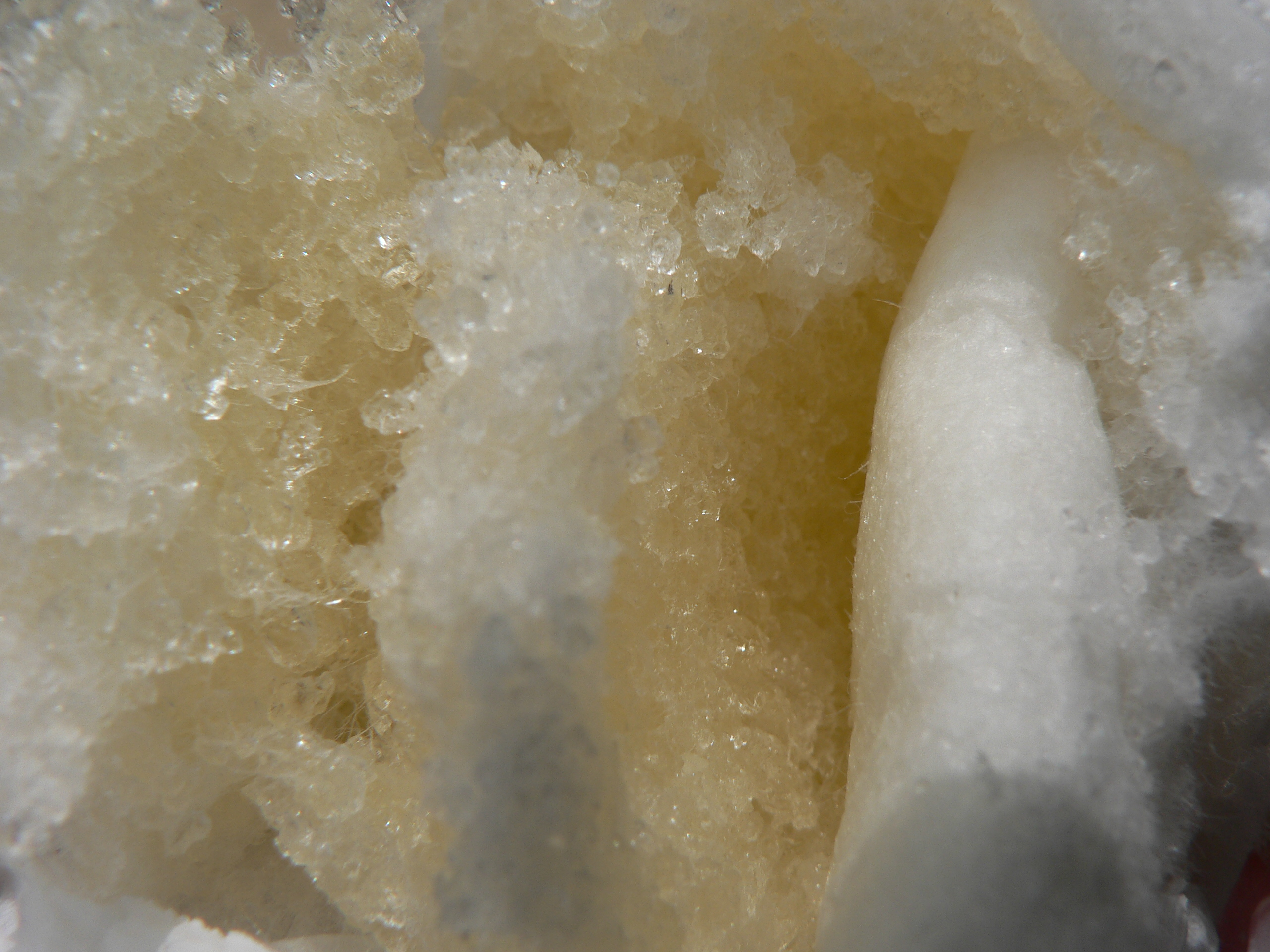 diaper absorbing inside